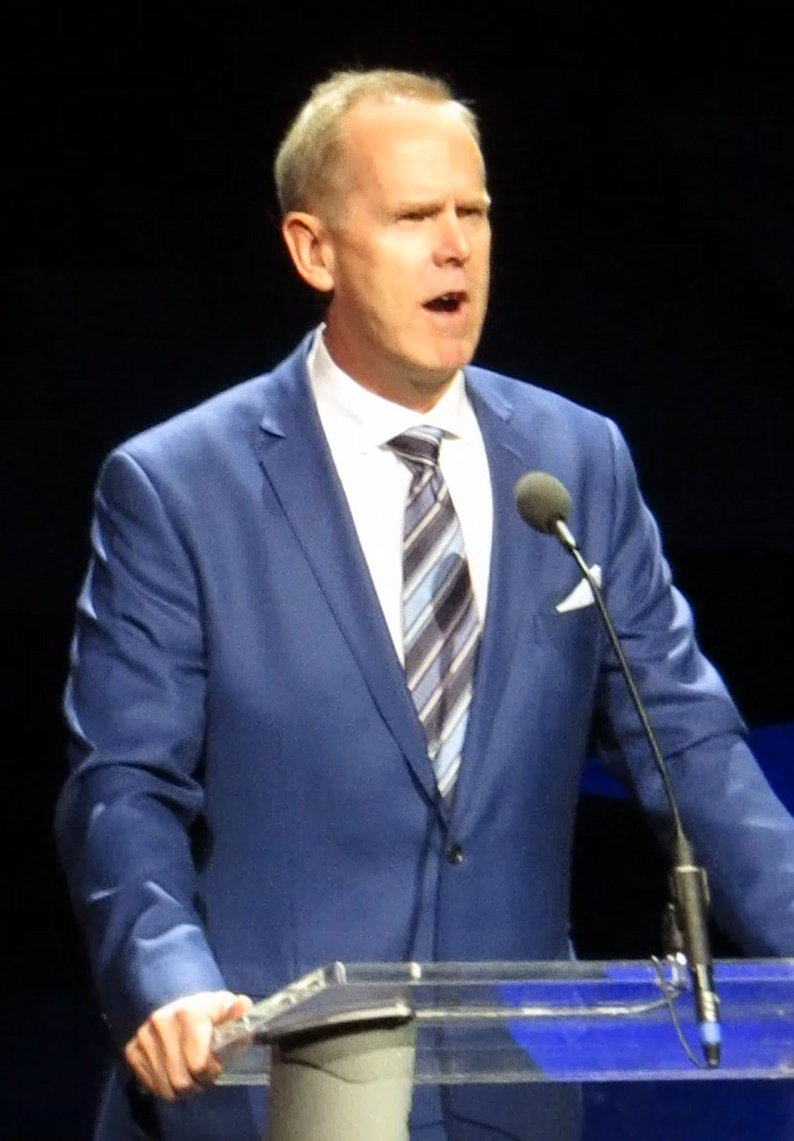 Tom Holmoe speaking at the BYU Homecoming opening ceremony.